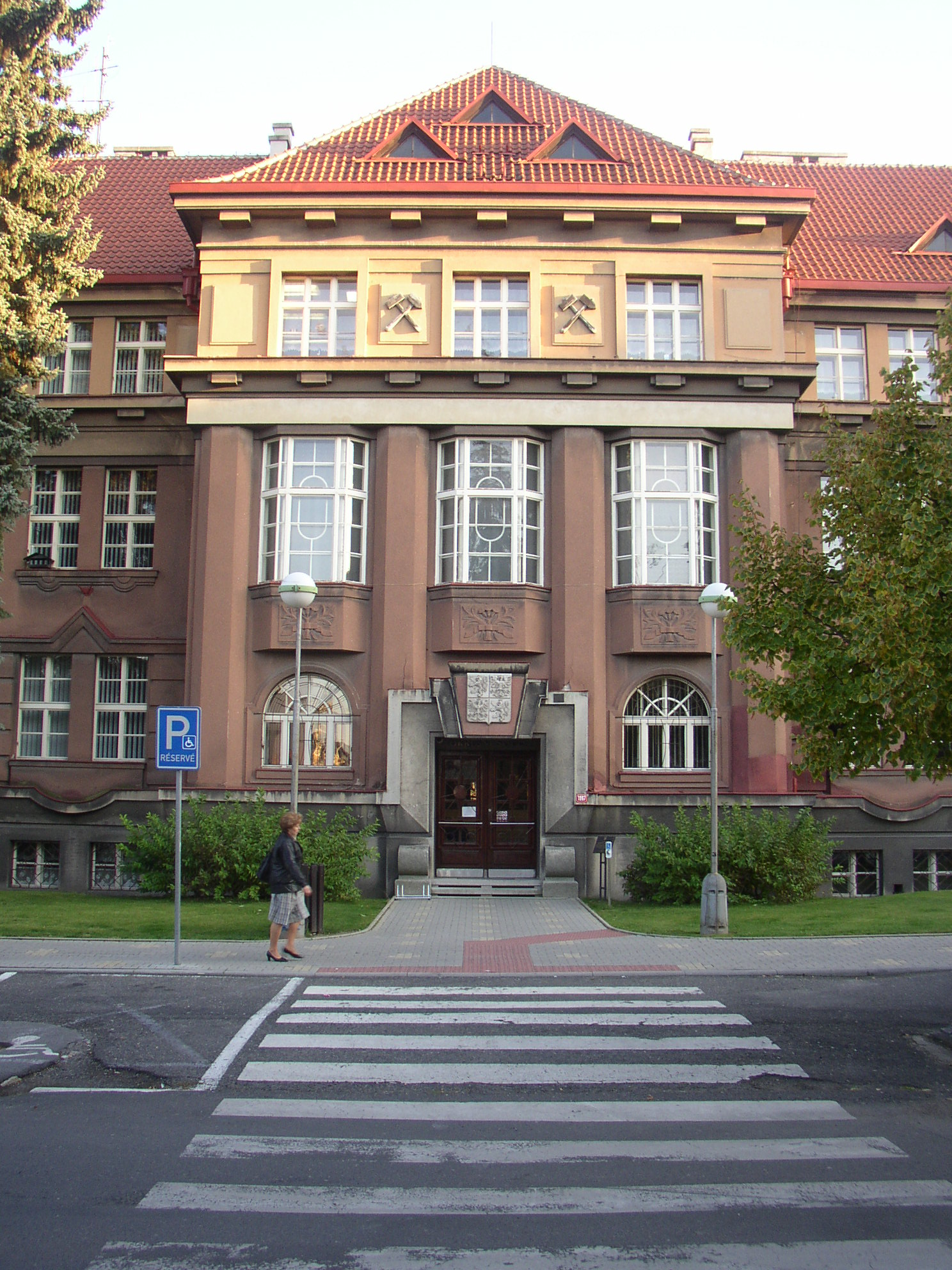 Seat of District Court in Kladno, Kladno District, Central Bohemian Region, Czech Republic. The 1924 building designed by Alois Dryák serves as courthouse since 1987.